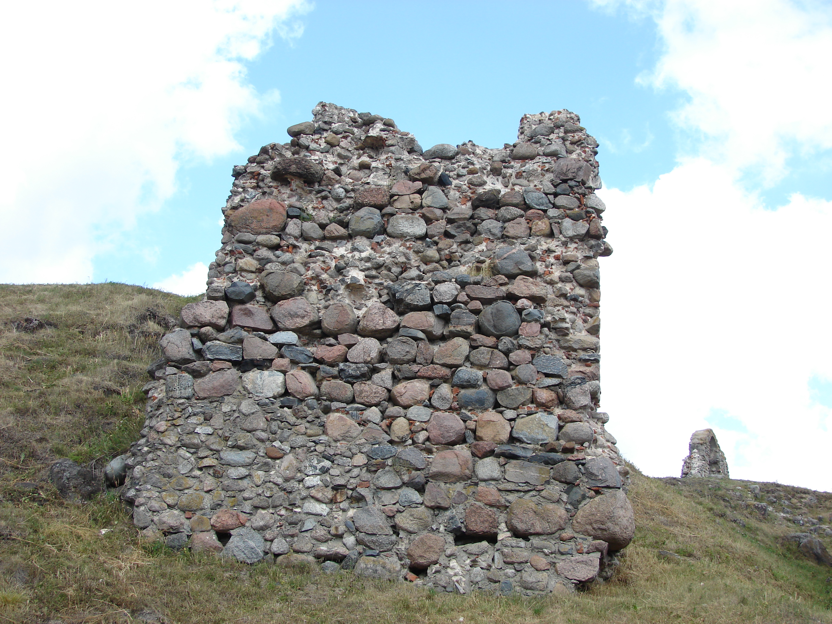 Rēzekne Castle ruinsLatviešu: Rēzeknes (Rositen) pils drupas (pirmo reizi rakstos minēta 1324.g.)